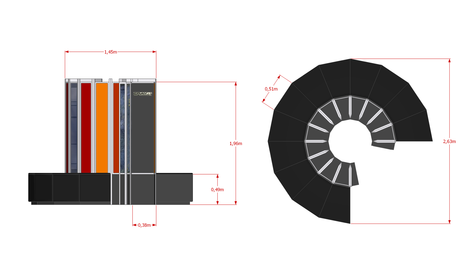 2-view drawing with scaling of a Cray-1 supercomputer